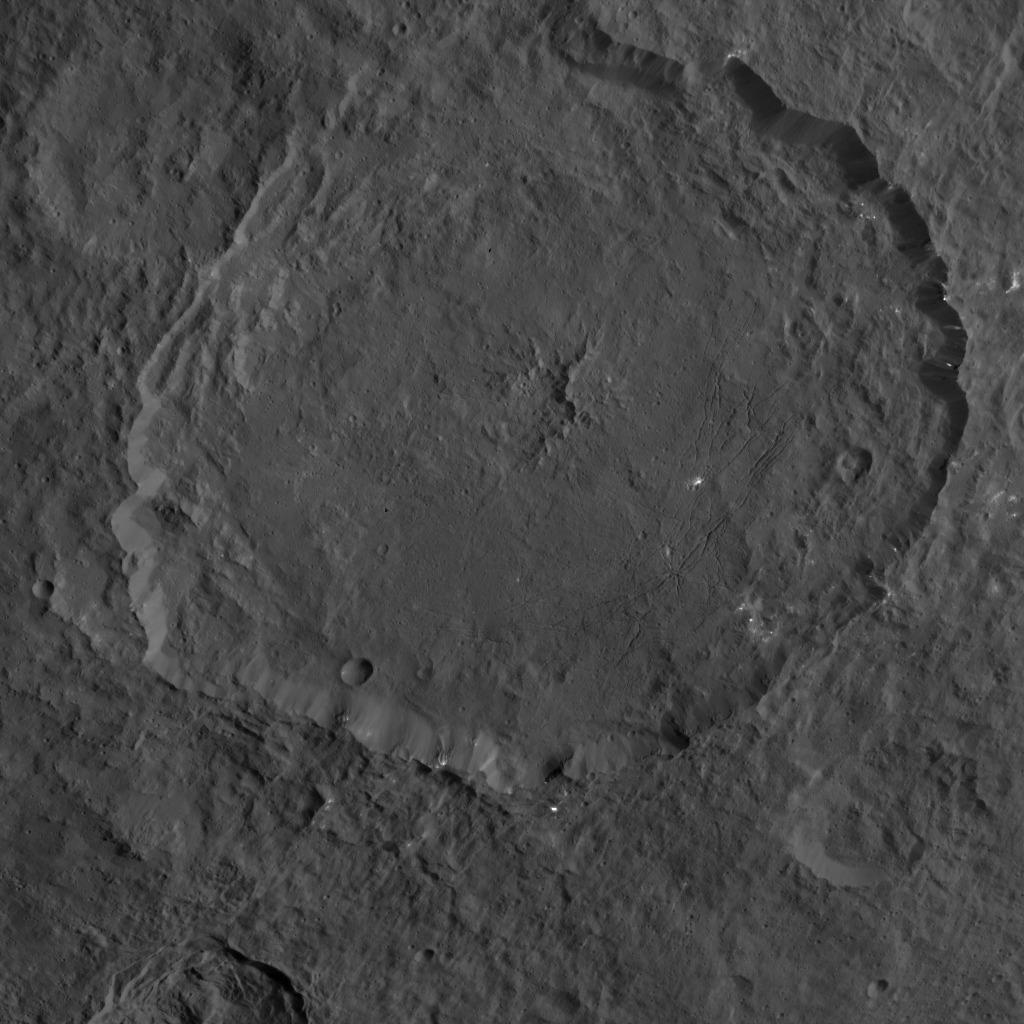 PIA19993: Dawn HAMO Image 51 This image, taken by NASA's Dawn spacecraft, shows a portion of the northern hemisphere of dwarf planet Ceres from an altitude of 915 miles (1,470 kilometers). The image was taken on Sept. 25, 2015, and has a resolution of 450 feet (140 meters) per pixel. Dantu crater, named for the Ghanan god associated with the planting of corn, is featured in this image. Its diameter is 77.1 miles (124 kilometers). Dawn's mission is managed by JPL for NASA's Science Mission Directorate in Washington. Dawn is a project of the directorate's Discovery Program, managed by NASA's Marshall Space Flight Center in Huntsville, Alabama. UCLA is responsible for overall Dawn mission science. Orbital ATK, Inc., in Dulles, Virginia, designed and built the spacecraft. The German Aerospace Center, the Max Planck Institute for Solar System Research, the Italian Space Agency and the Italian National Astrophysical Institute are international partners on the mission team. For a complete list of acknowledgments, For more information about the Dawn mission, visit